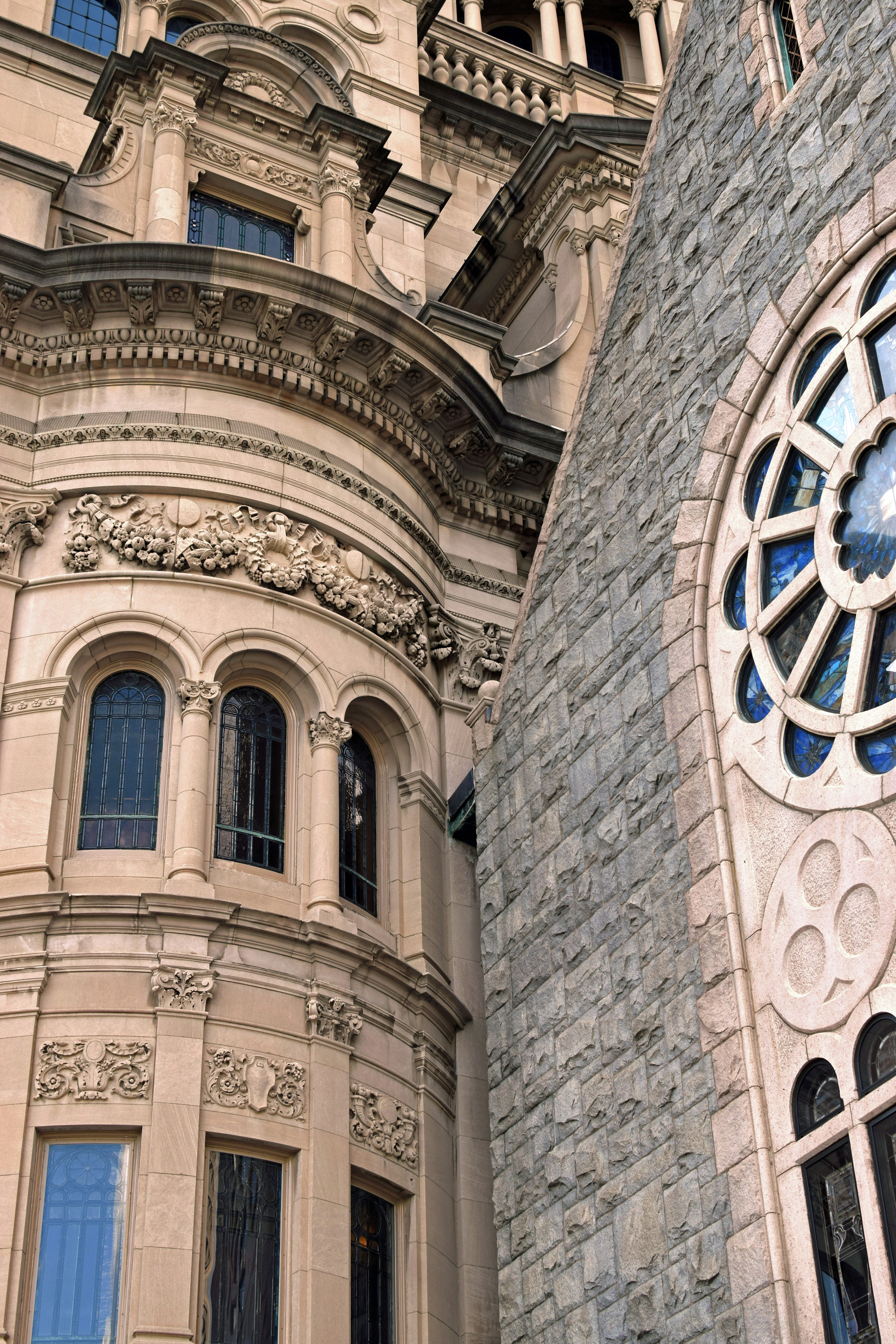 A close-up look at the Mother Church of Christian Science (located in downtown Boston)